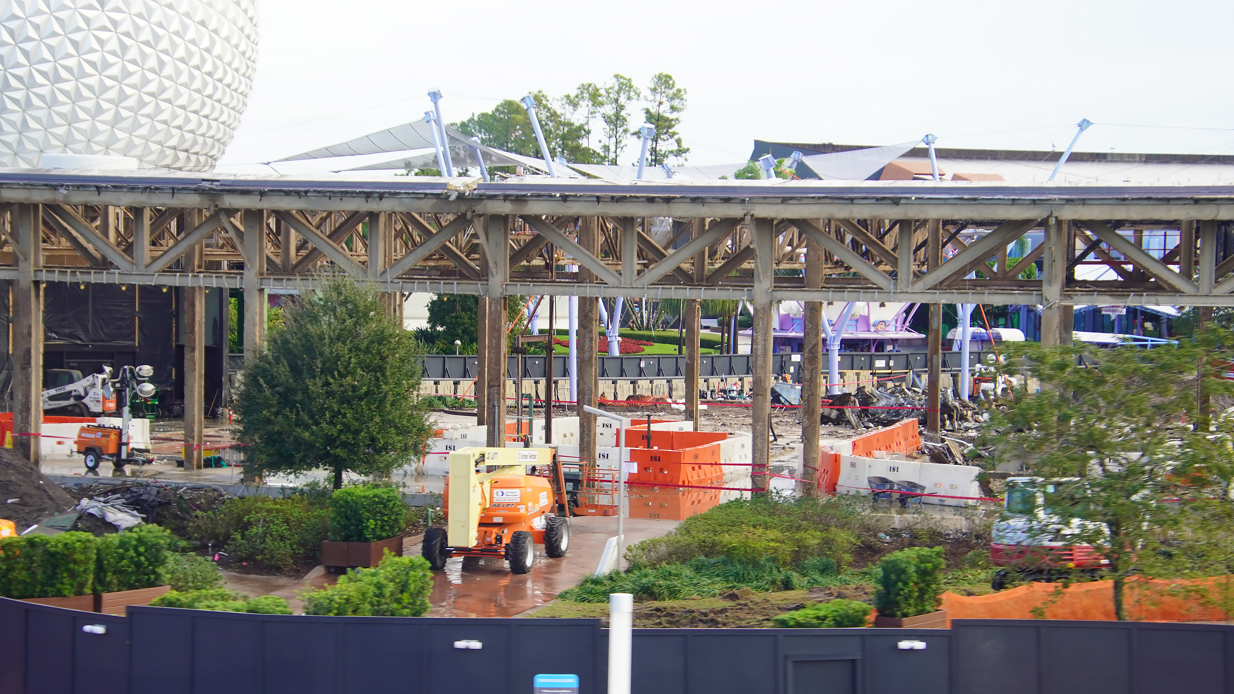 South portion of Innoventions West reduced to just structural frame, as seen from the monorail on Dec 14, 2019.